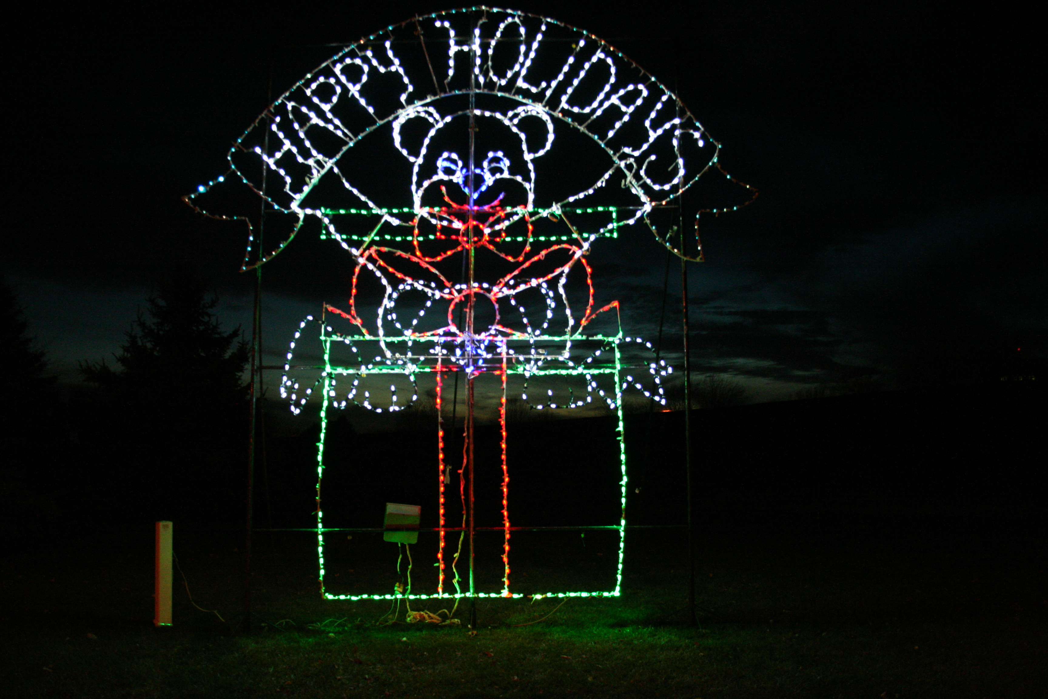 One of the many displays in Sarnia's Celebration of Lights